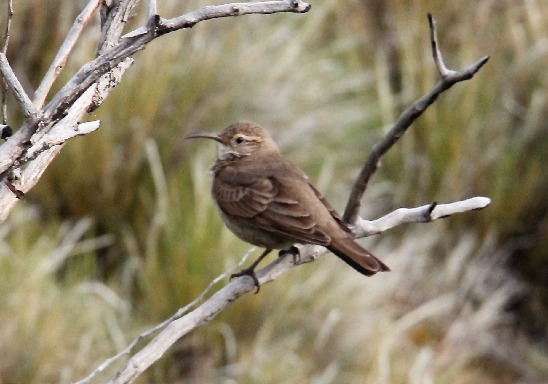 Scale-throated Earthcreeper (Upucerthia dumetaria)